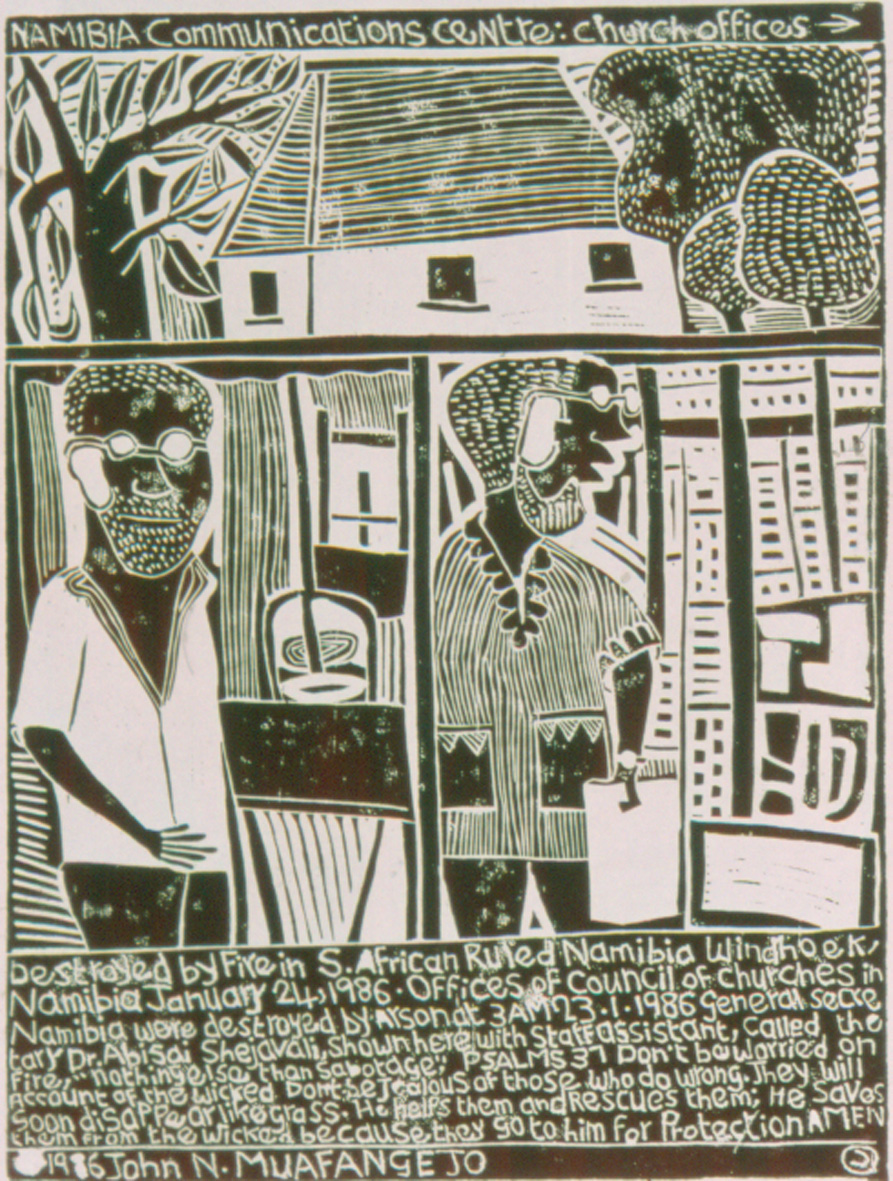 11.1 Namibia Comms Centre, John Muafangejo